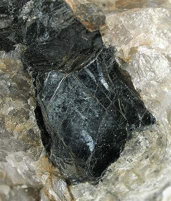 Annite Locality: Rockport, Essex County, Massachusetts, USA (Locality at ) Size: small cabinet, 6.8 x 5.4 x 4.6 cm Annite According to MINDAT this is an extremely rare member of the Mica Group in the Biotite-Phlogopite Series. Regardless, its the most oddly crystallized mica I have seen. It looks more like a dark phosphate than a mica. From the TYPE LOCALITY where it was first noted in 1868!